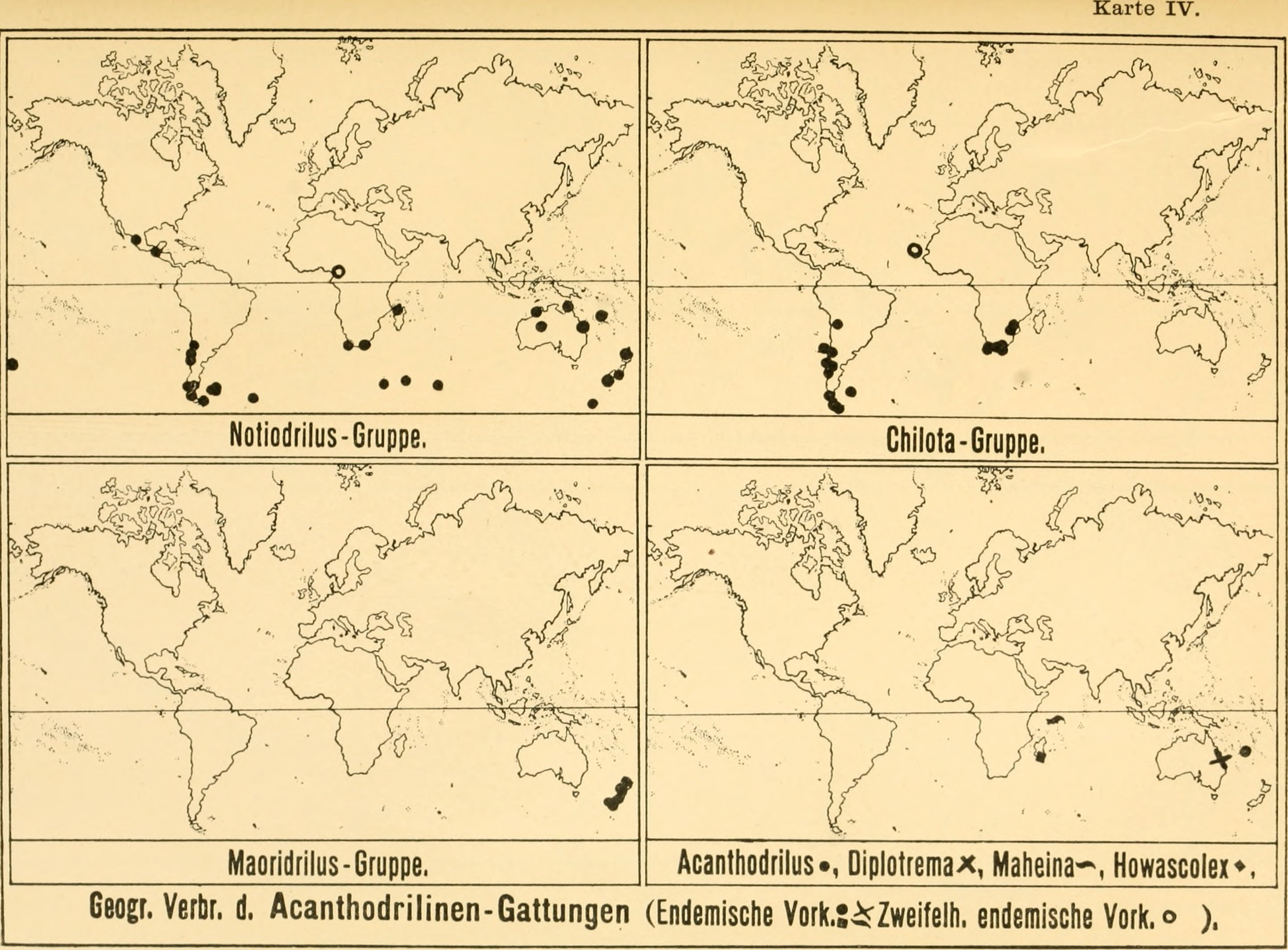 Title: Die geographische Verbreitung der Oligochaeten Year: 1903 (1900s) Authors: Michaelsen, W. (Wilhelm), 1860-1937 Subjects: Oligochaeta Publisher: Berlin : R. Friedländer Text Appearing Before Image: ' Text Appearing After Image: '